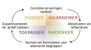 Diagram of Experiential learning according to David A. Kolb.